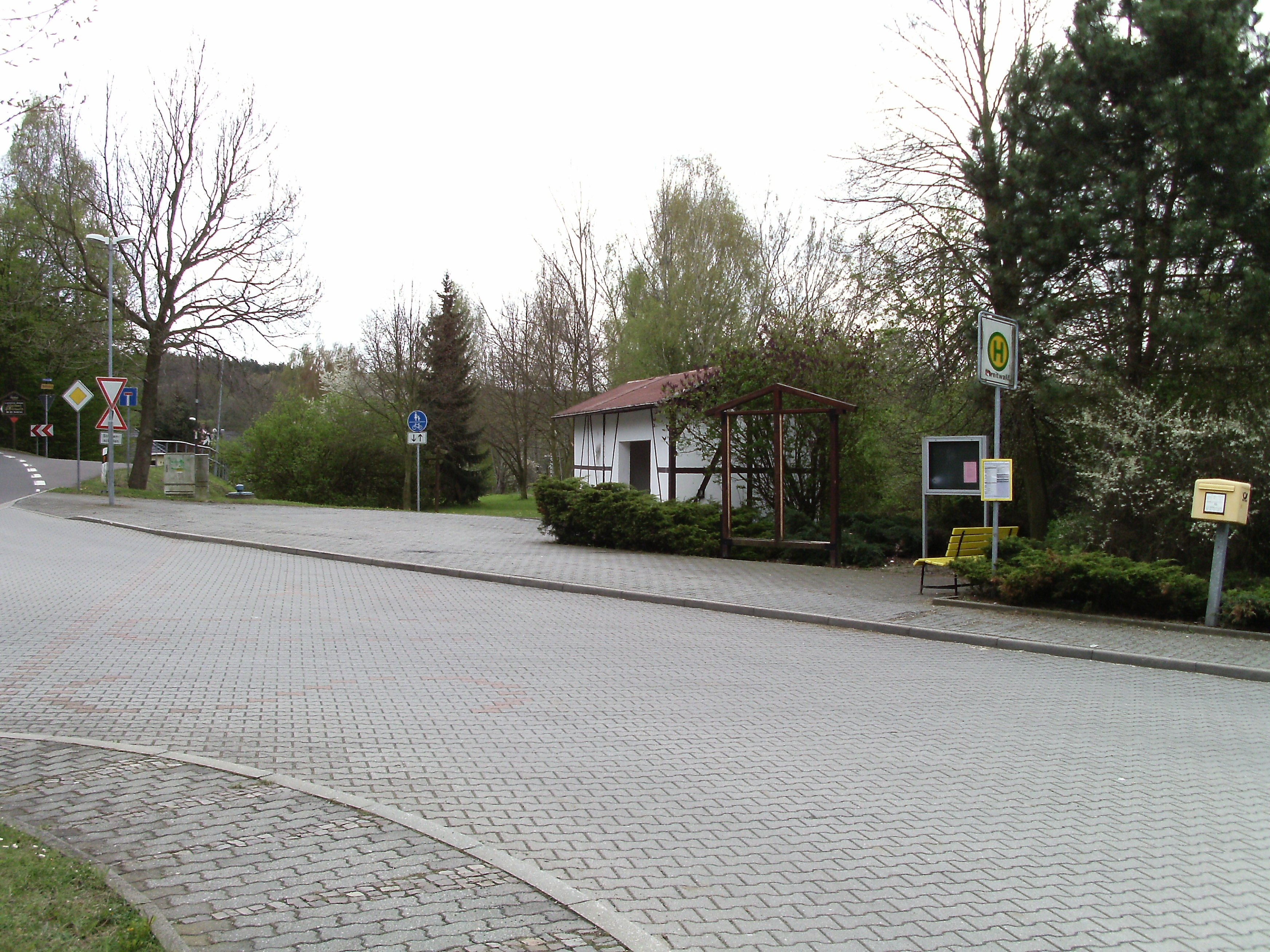 Former train station of the Wyhra valley railway, now bus stop, in Streitwald (Frohburg, Leipzig district, Saxony)